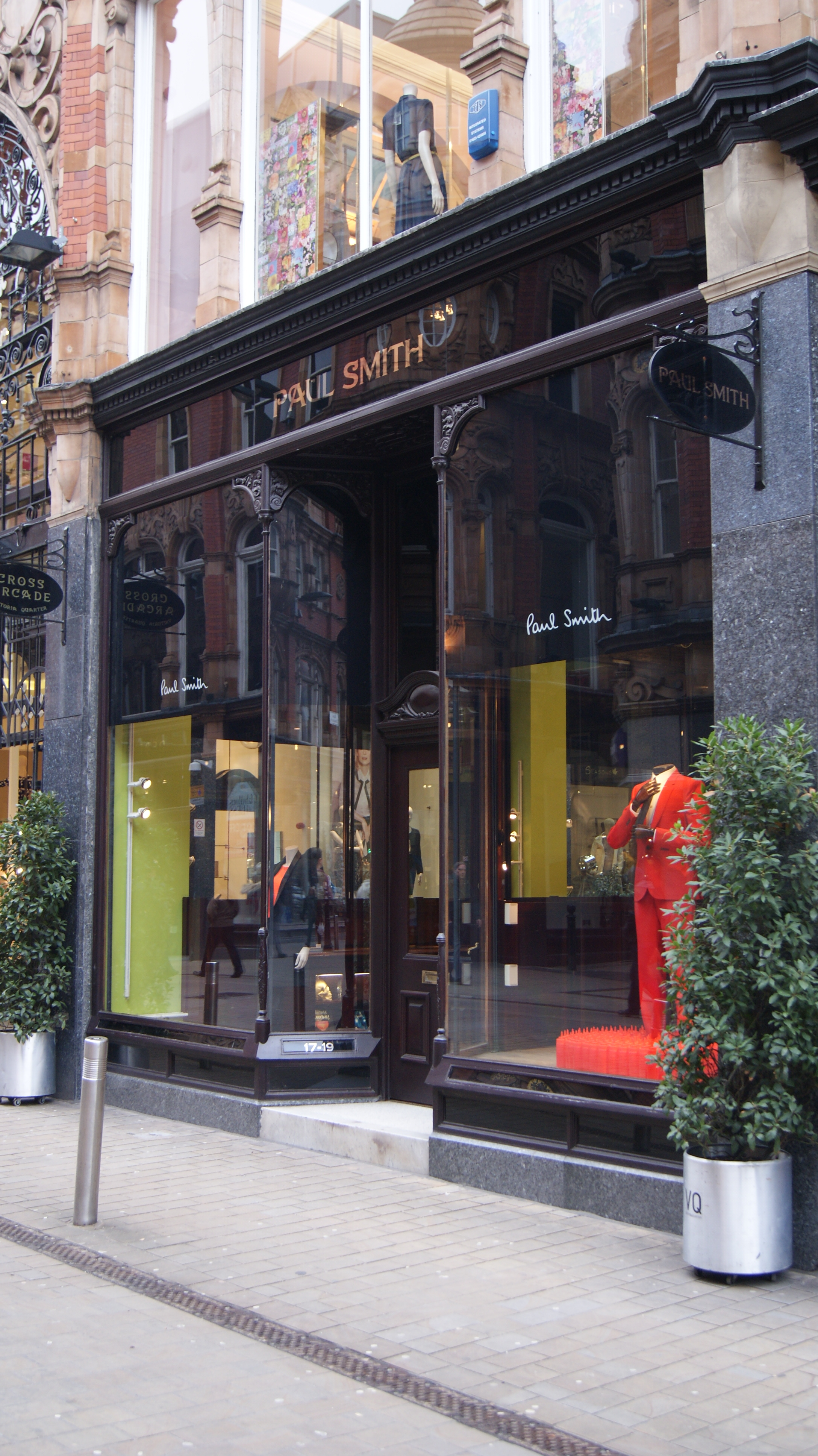 Paul Smith shop on King Edward Street, Leeds, West Yorkshire. Taken on the afternoon of Wednesday the 20th of February 2013.